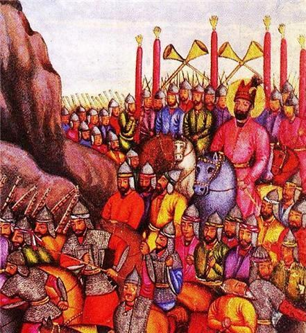 Afsharid Empire Nader Shah Afshar